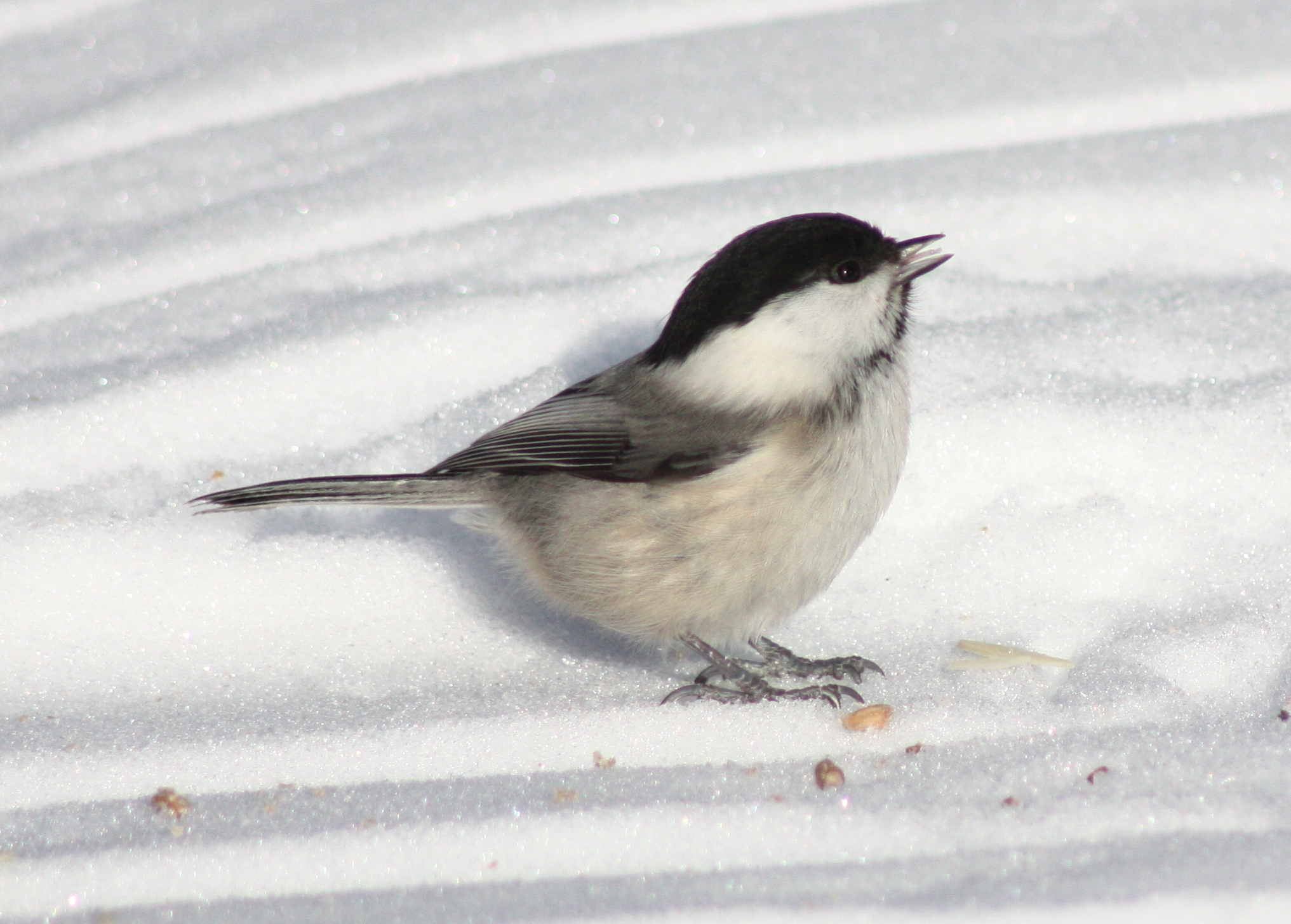 Willow tit (Poecile montanus) in Kittilä, Finland.